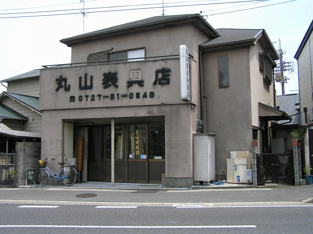 hyougu-ten 表具店